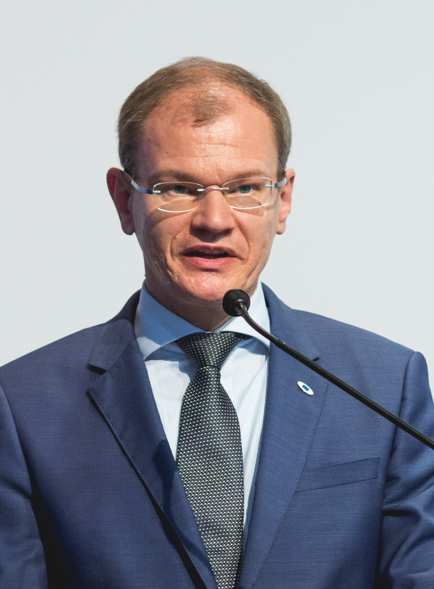 Photos from the opening plenary session photo gallery may be reproduced provided attribution is given to the WTO and the WTO is informed. Photos: © WTO/ Cuika Foto